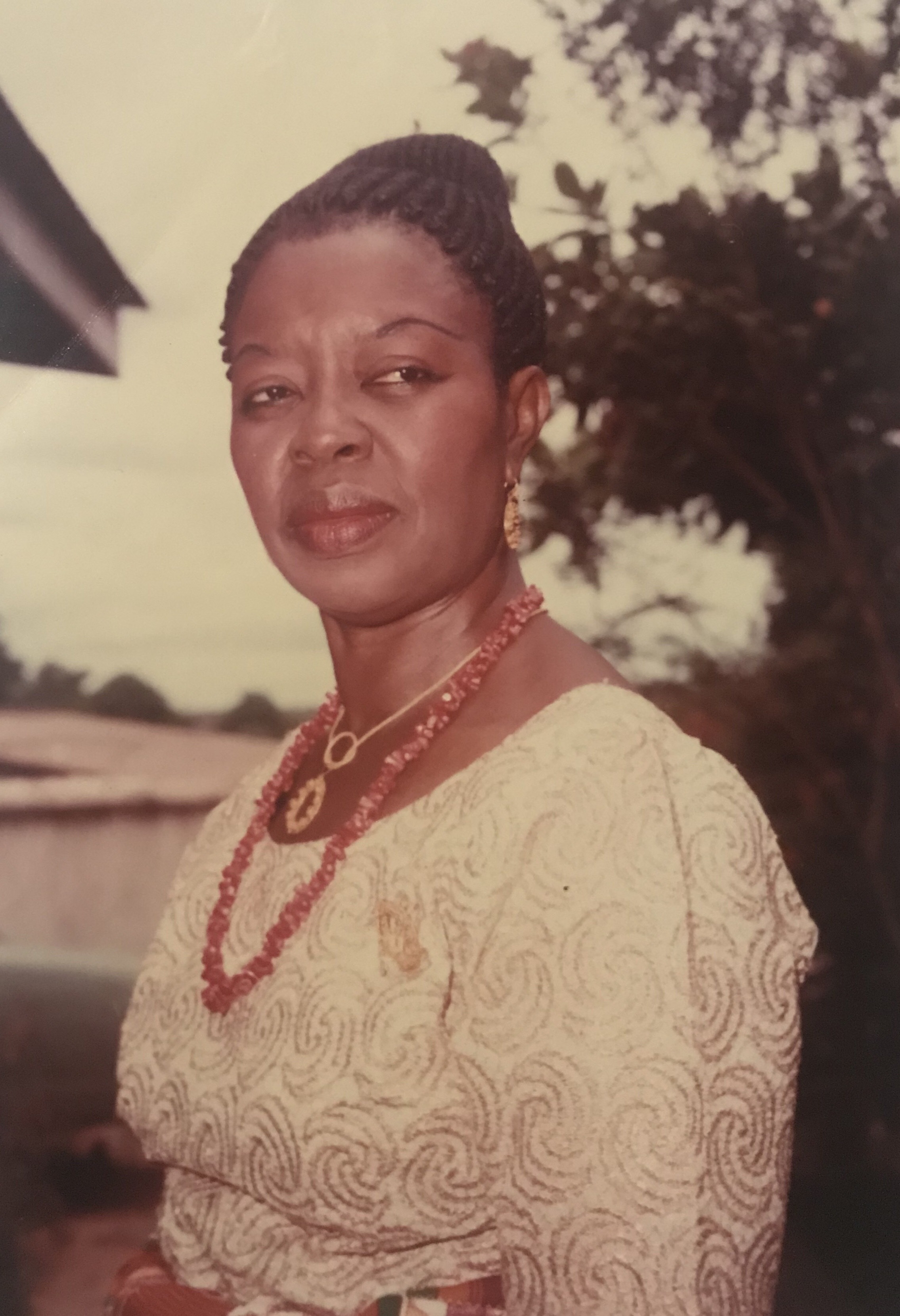 Teresa Meniru in Enugu (then Anambra State) circa. 1980.